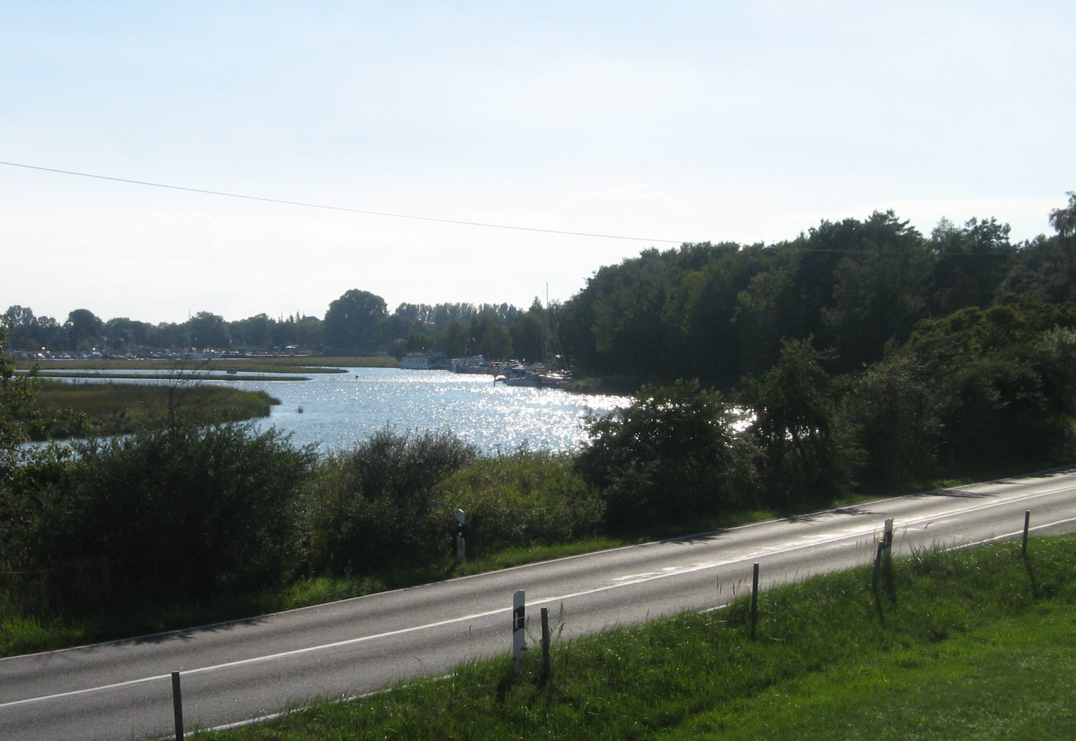 A small section of the Prerow Channel which once completely separated the former island of Darß from the former island of of Zingst, seen from the state road (L) 21 NE of the town of Prerow, with the small Prerow harbour in the background, Western Pomerania, East German Baltic Sea coastal area.